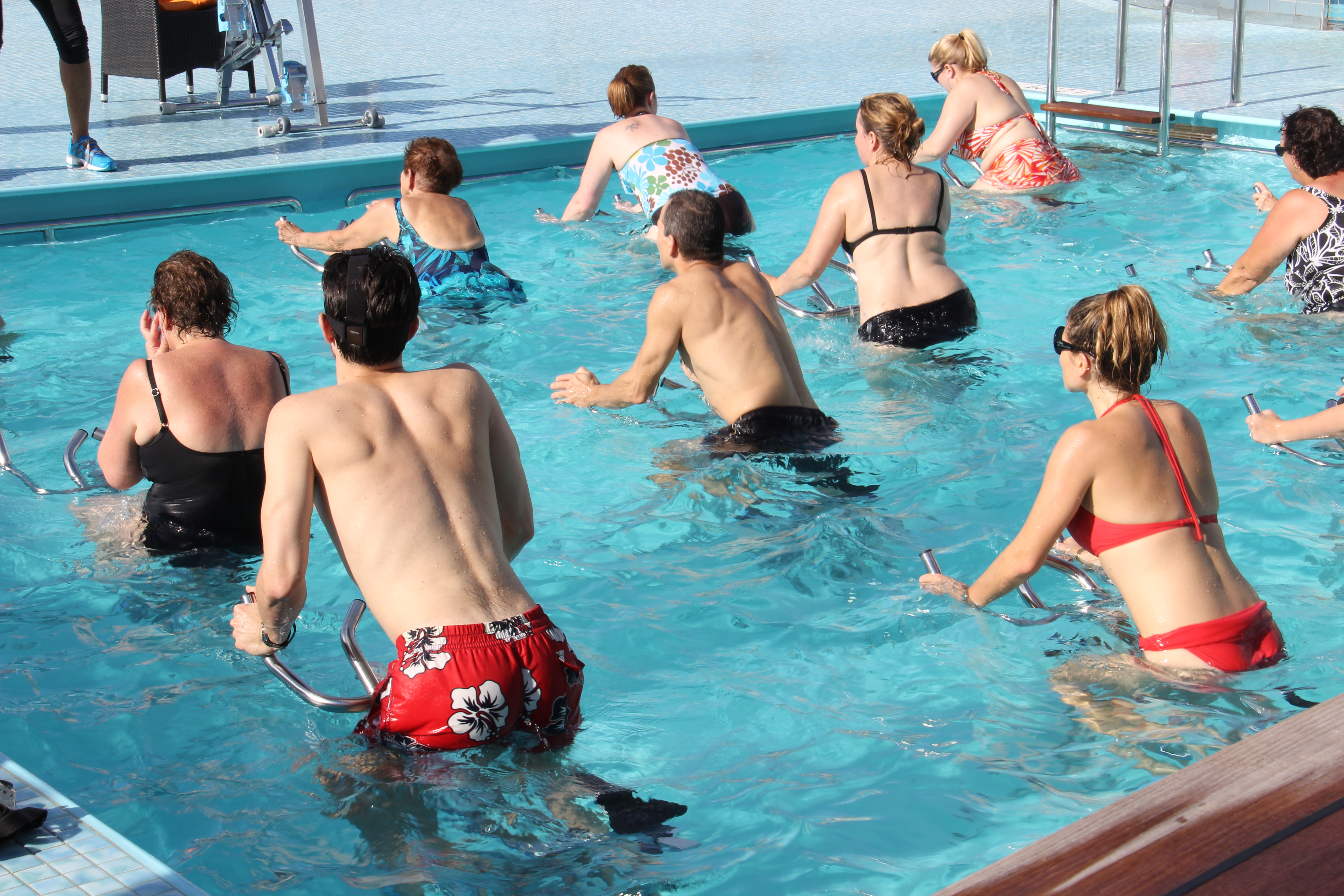 An aqua spinning class aboard MSC Divina, a Miami-based cruise ship, in 2013. More information at Gary Bembridge's Tips for Travellers on MSC Divina.